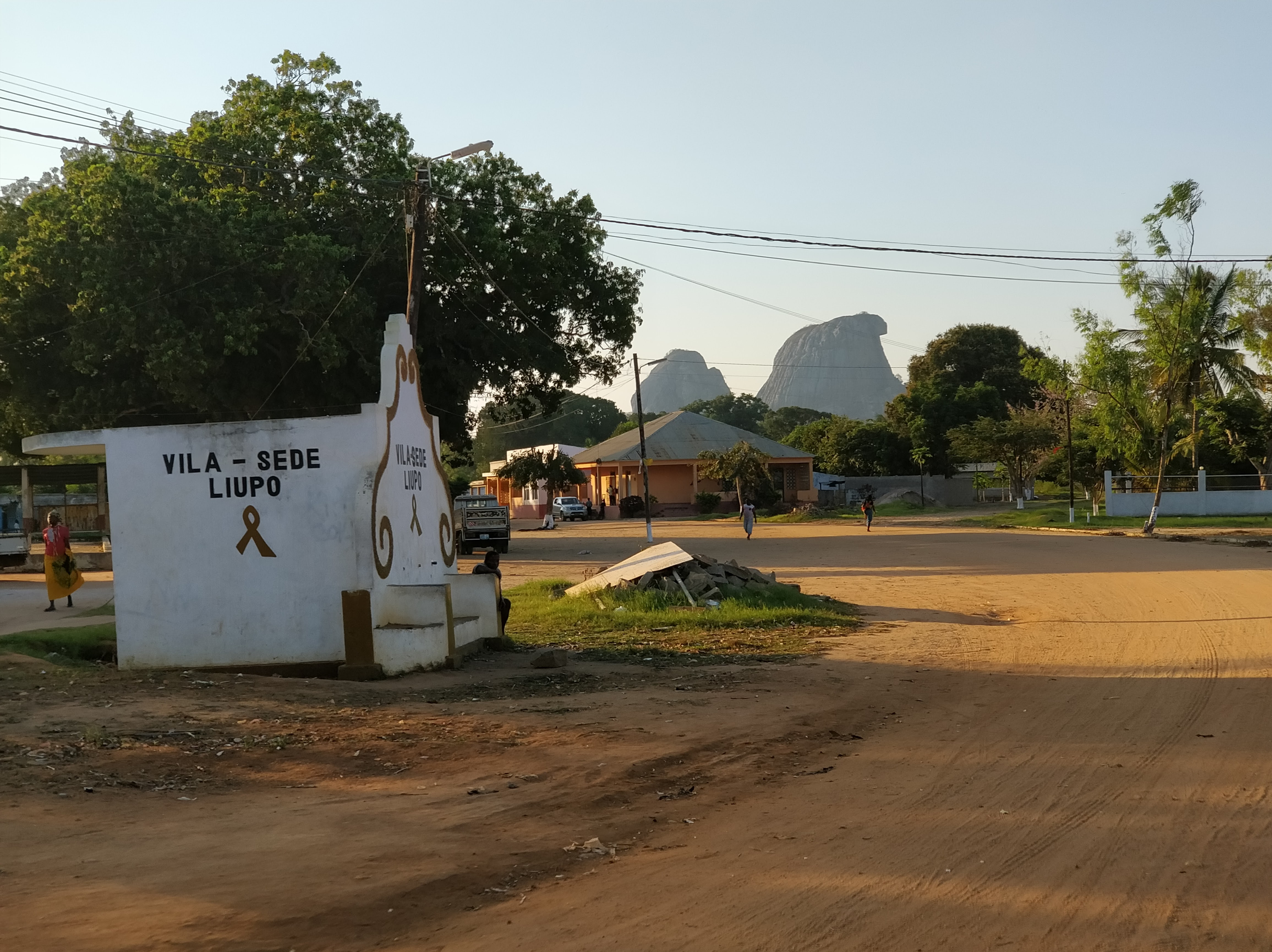 View of Liúpo town, in background the Liúpo mountain, Mozambique